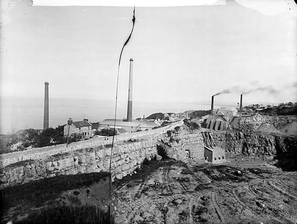 1 negative : glass, dry plate, b&w ; 16.5 x 21.5 cm.